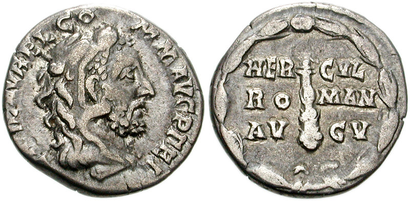 Commodus. AD 177-192. AR Denarius (17mm, 2.90 g, 6h). Rome mint. Struck AD 191-192. M AUREL CO-MM AUG P FEL, Head right, wearing lion skin HER CVL / RO MAN /AV GV in three lines divided by club upright; all within wreath. RIC III 251; MIR 18, 853-4/72; RSC 190